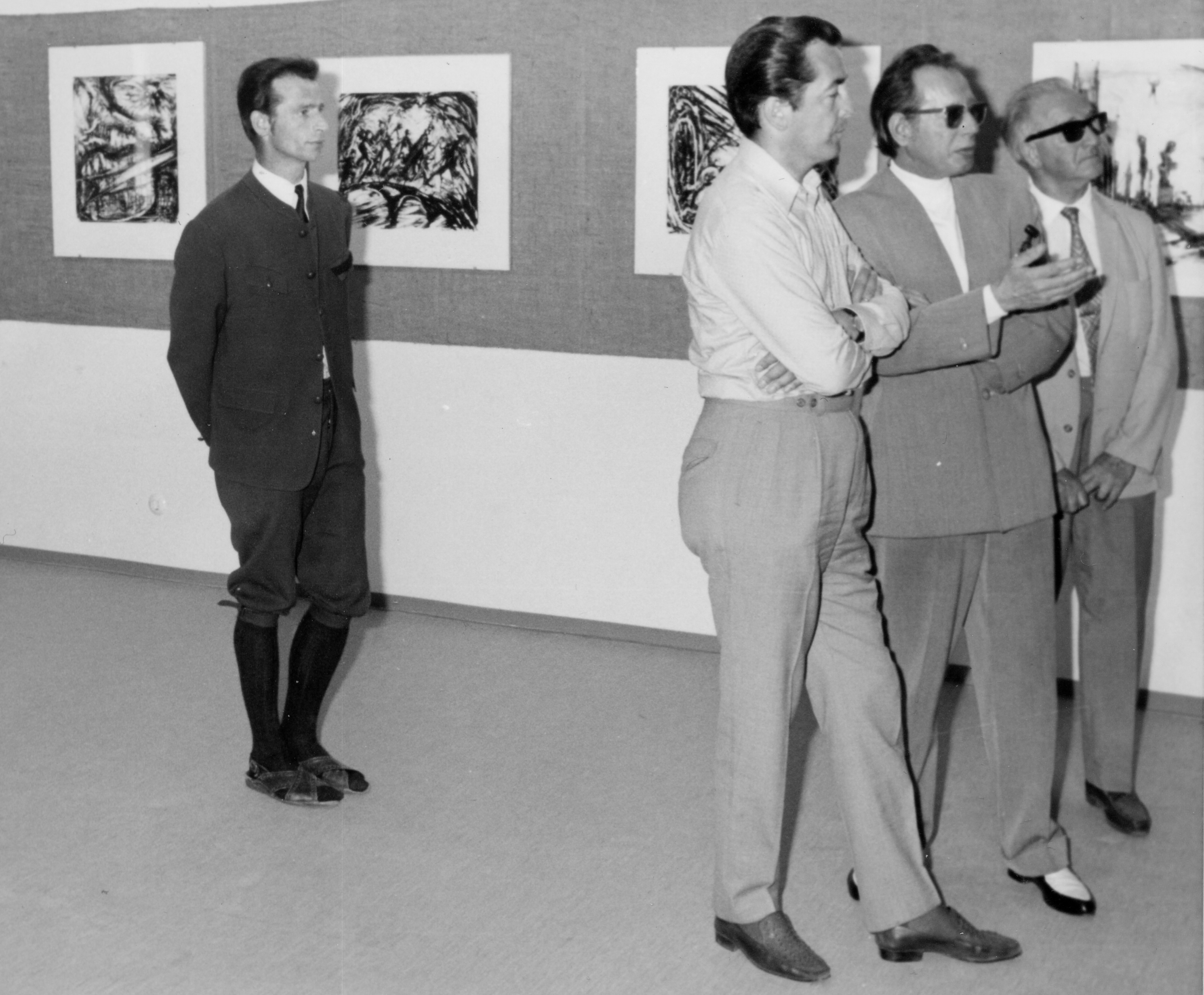 Exhibition in Bad Hofgastein, state of Salzburg, Austria; from left to right: unknown visitor of the gallery, Alois Mock (Austrian politician), Lucas Mahrenbrand (Austrian painter and printmaker), Rudolf Berdach (officer)